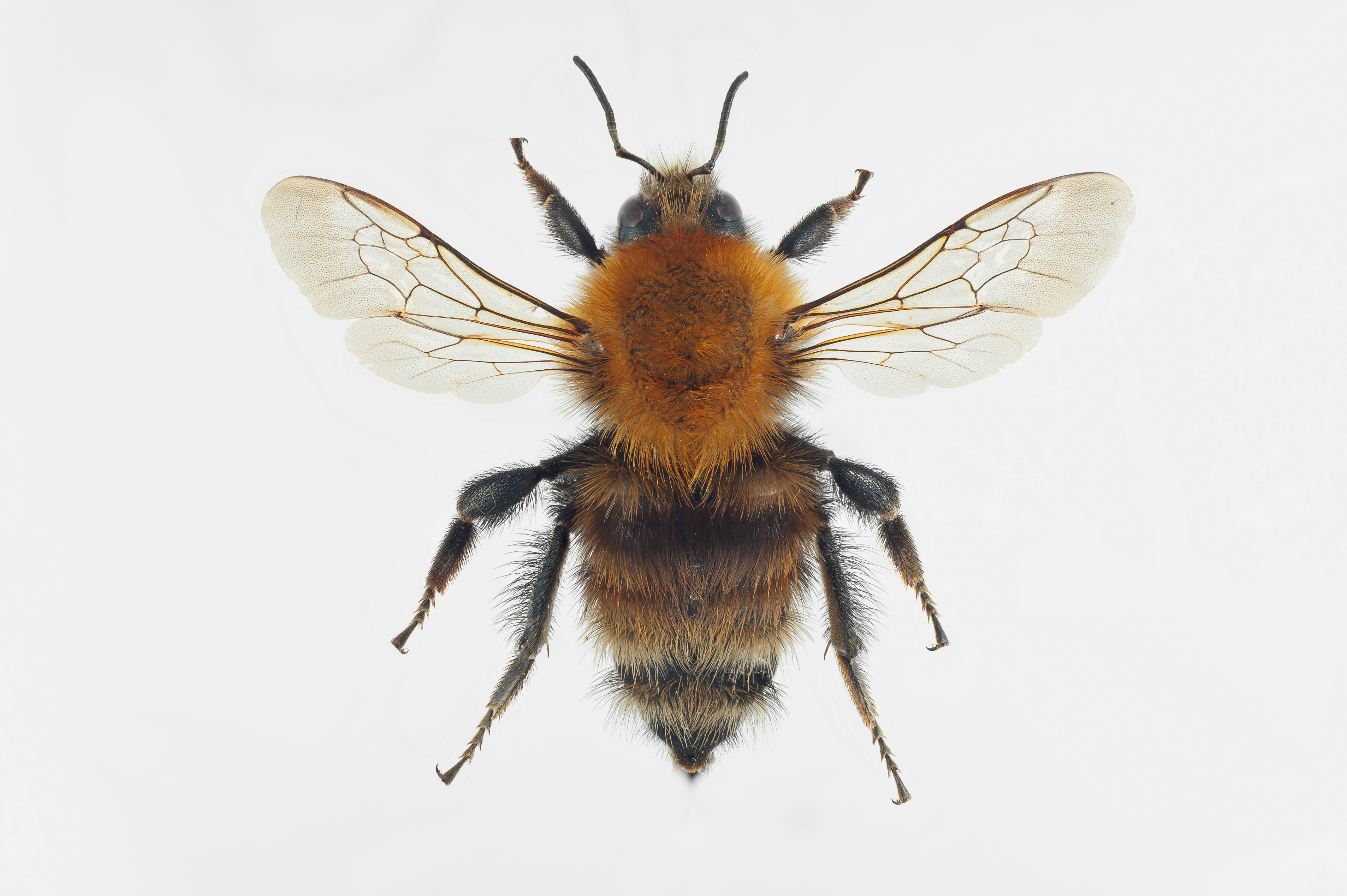 queen of brown-banded carder bee (Bombus humilis)